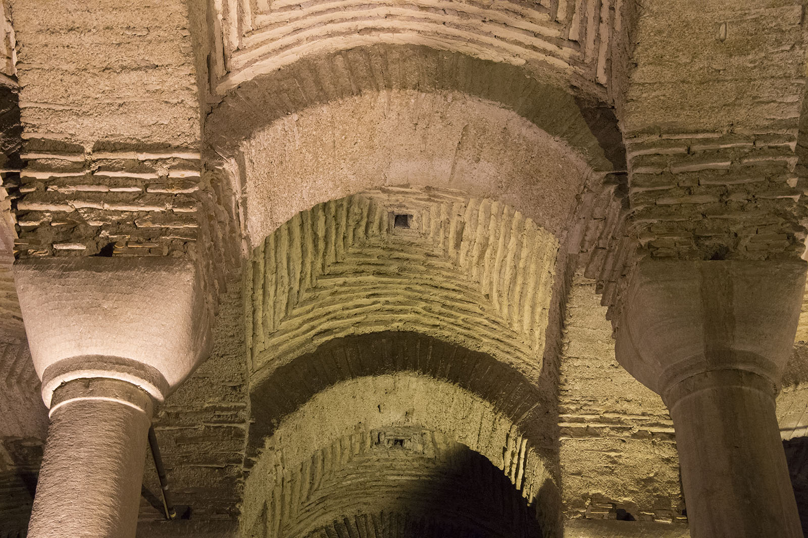 Self-explanatory